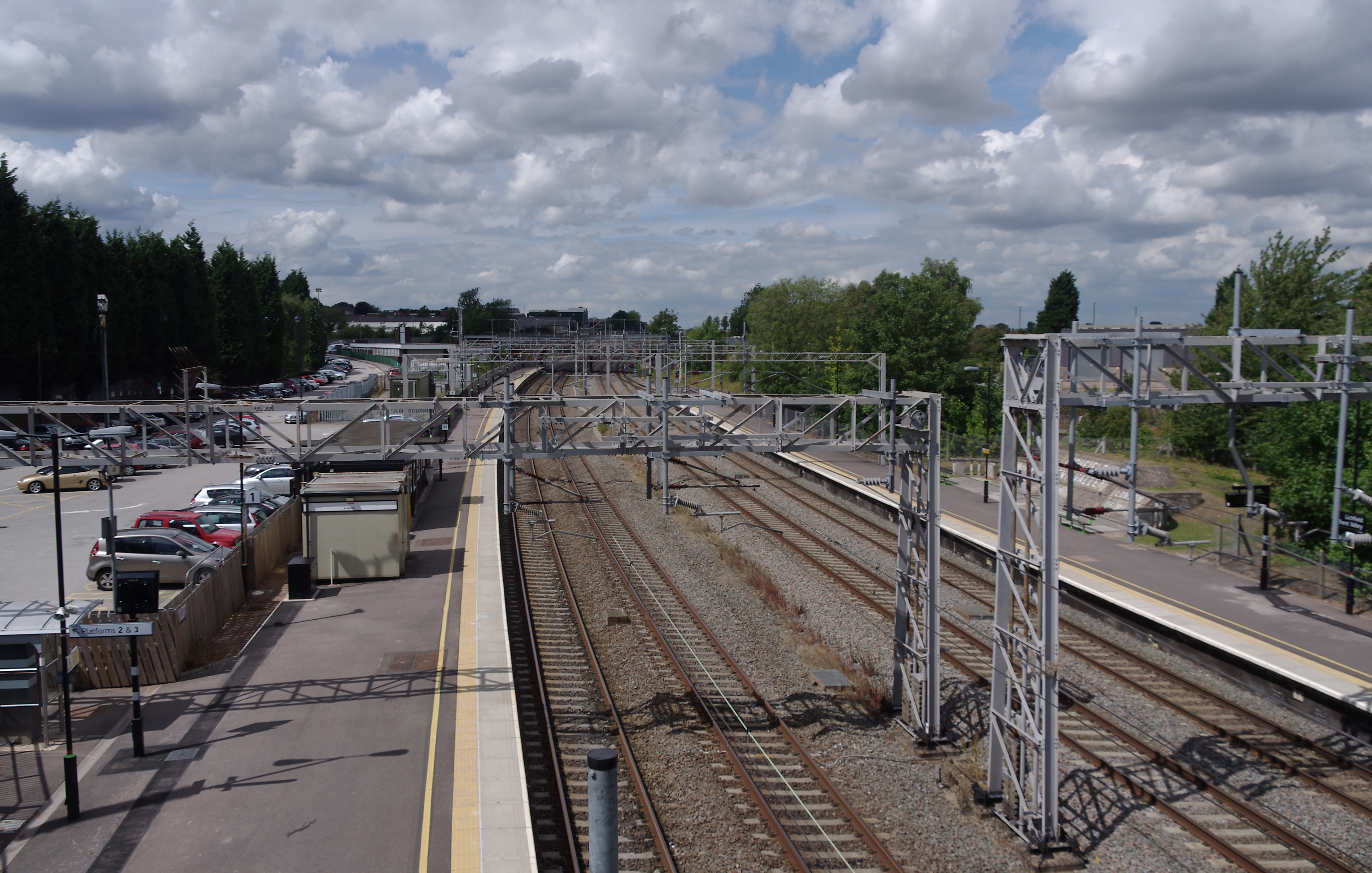 The low level platforms at Lichfield Trent Valley railway station.